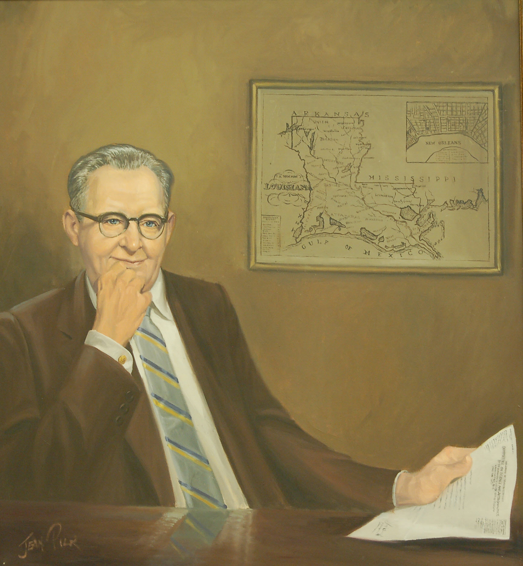 Overton Brooks, member of the United States House of Representatives from Louisiana